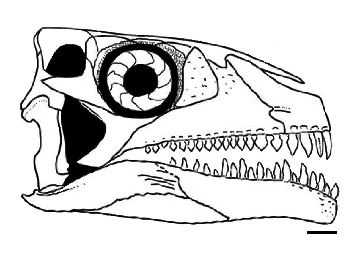 A diagram of the skull of Azendohsaurus madagaskarensis, an allokotosaurian archosauromorph. Image is in right lateral view. Scale bar equals 1 centimeter. Modified from Flynn et al. (2010). Numbers indicate character states scored in the data matrix. Character state scores= 9-1: The external nares are confluent. 16-1: The Orbit is subcircular in shape. 21-2: The height of the snout at the tip of the maxilla is 0.59-0.80 times the height of the snout at the front edge of the orbit. 27-1: The premaxillary body forms more than half of the snout in front of the rear edge of the external nares. 36-2: The postnarial process of the premaxilla is well-developed, excluding the maxilla from participation in the external nares. 64-1: The posterior end of the horizontal process of the maxilla is distinctly ventrally deflected from the main axis of the alveolar margin. 99-1: The jugal possesses an ascending process which excludes the postorbital from the front edge of the infratemporal fenestra. 111-1: The lateral surface of the orbital margin of the prefrontal possesses rugose sculpturing. 131-1: The ventral process of the postorbital ends close to the ventral border of orbit. 180-1: The dorsal end of the quadrate is hooked posteriorly in lateral view. 267-2: The tooth-bearing portion of the dentary is ventrally deflected. 283-1: The retroarticular process of the surangular and articular is short and poorly developed.